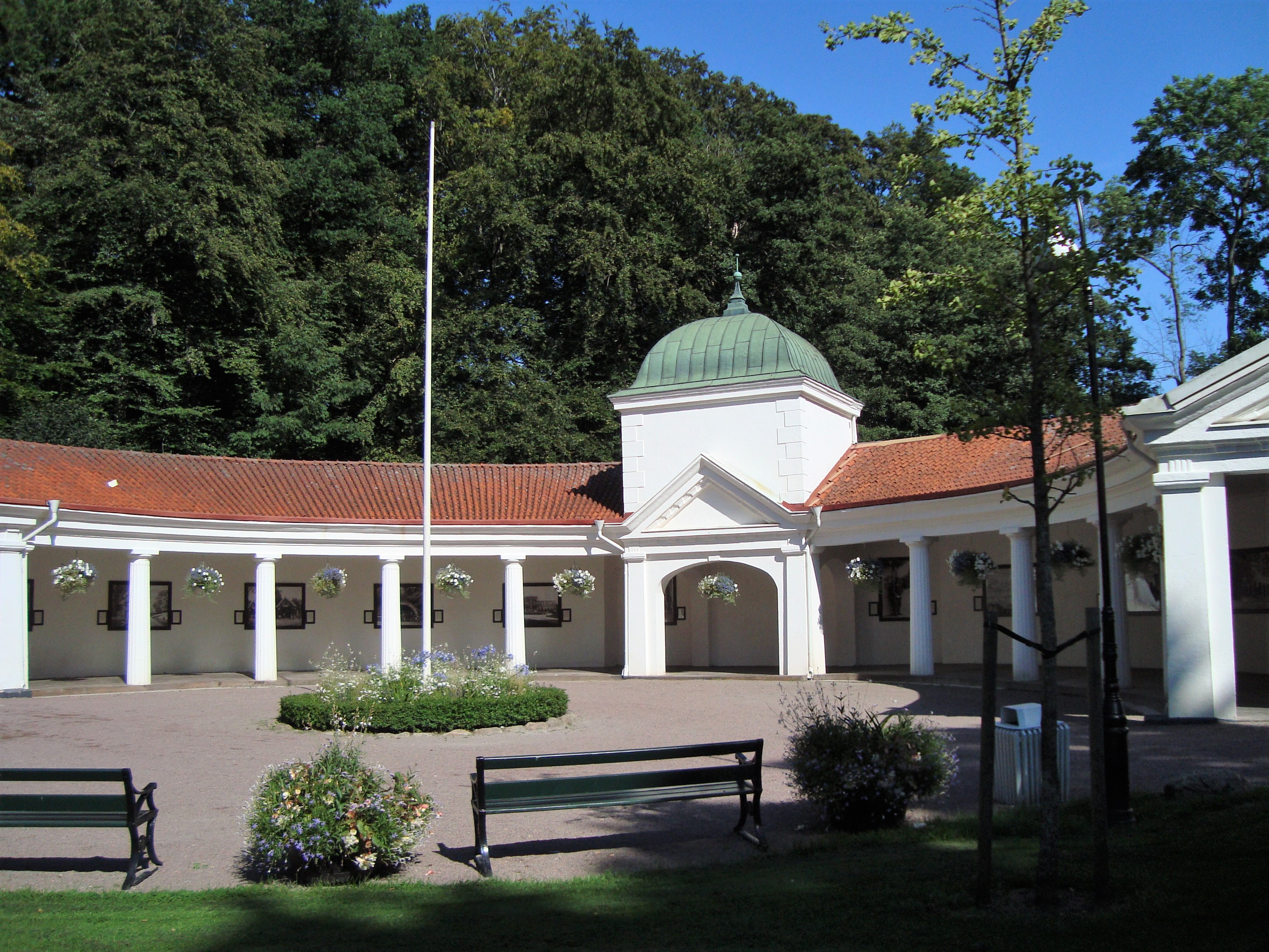 Vattenpaviljongen (the Water Pavillion) in Ramlösa Spa in Helsingborg.